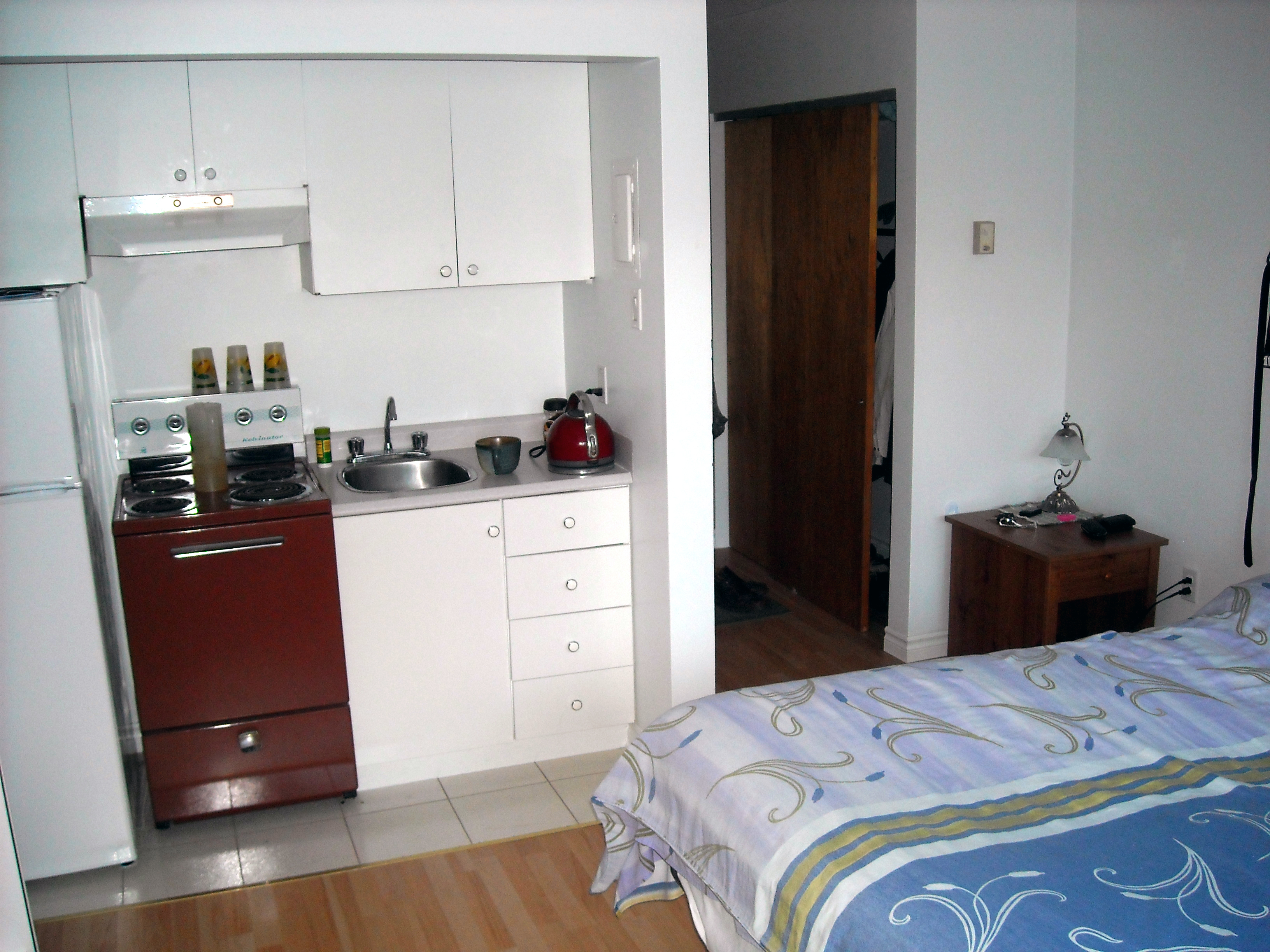 An example of Canadian cuisinette (kitchenette) in a studio apartment located in the City of Sherbrooke, Quebec.